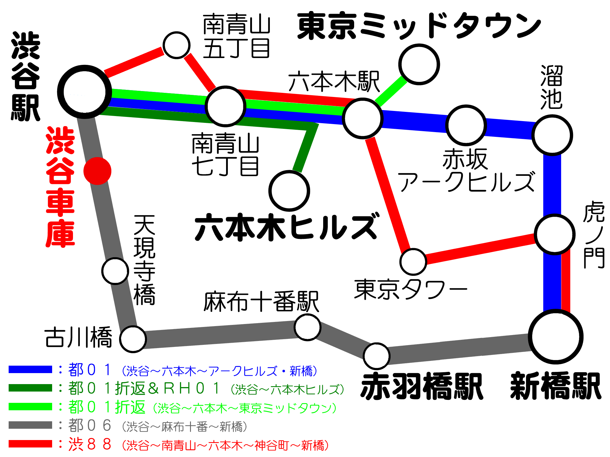 Toei Bus route between Shibuya and Shinbashi Green Shuttle (To01: blue) - via Kasumigaseki and Roppongi (To01: green) - between Shibuya and Roppongi Hills, included RH01. To01 (light green) - between Shibuya and Tokyo Midtown. Green Echo (To06: gray) - via Akabanebashi, Azabu and Hiro-o Sibu88 (red) - via Kamiyacho, Roppongi and Minami-Aoyama